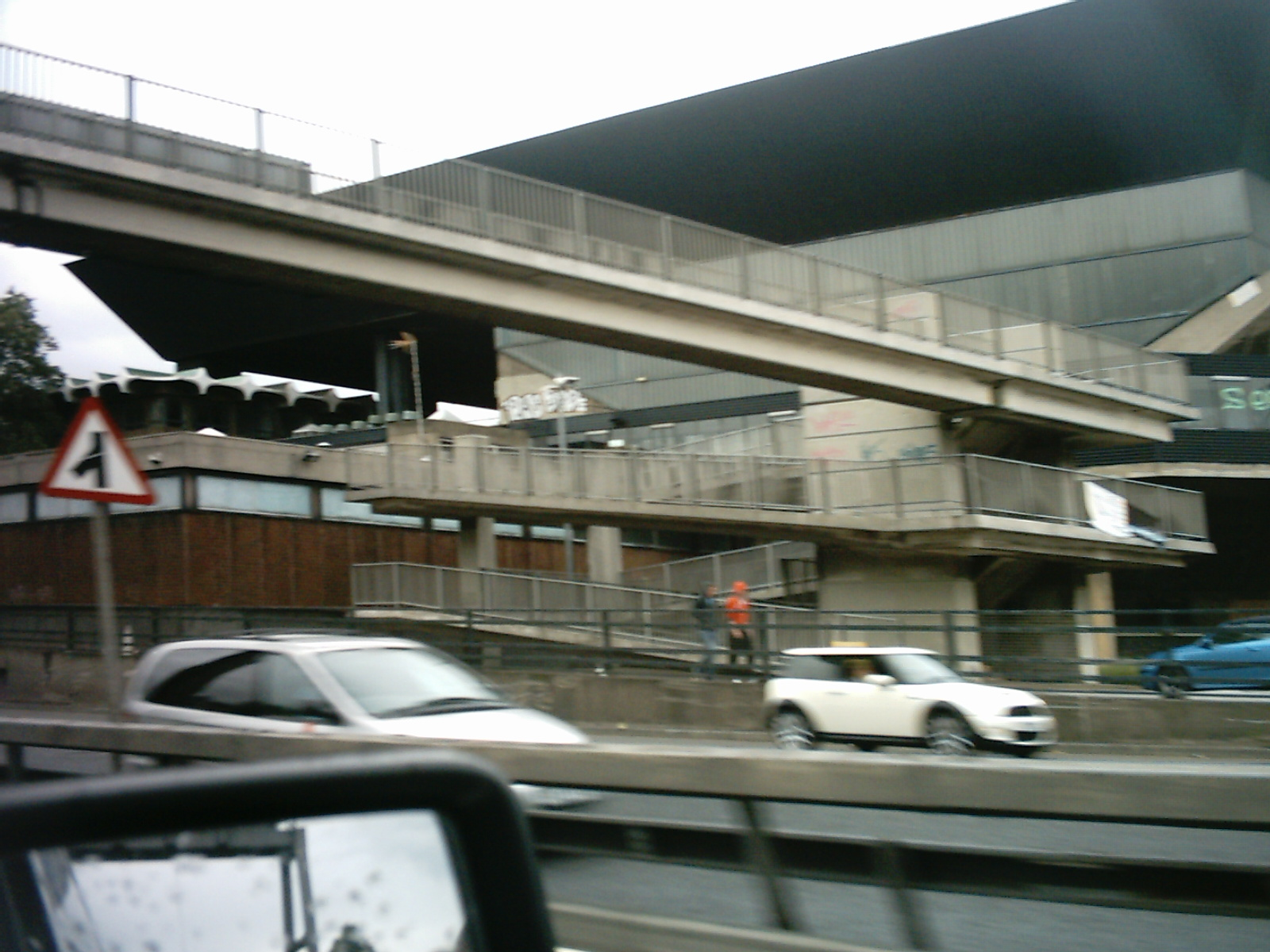 Leeds International Pool as seen from the Leeds Inner Ring Road